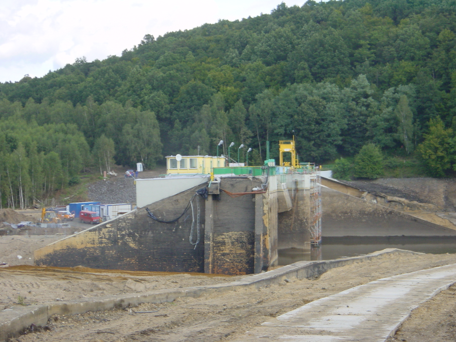 Witka dam, Poland, collapsed on August 7, 2010